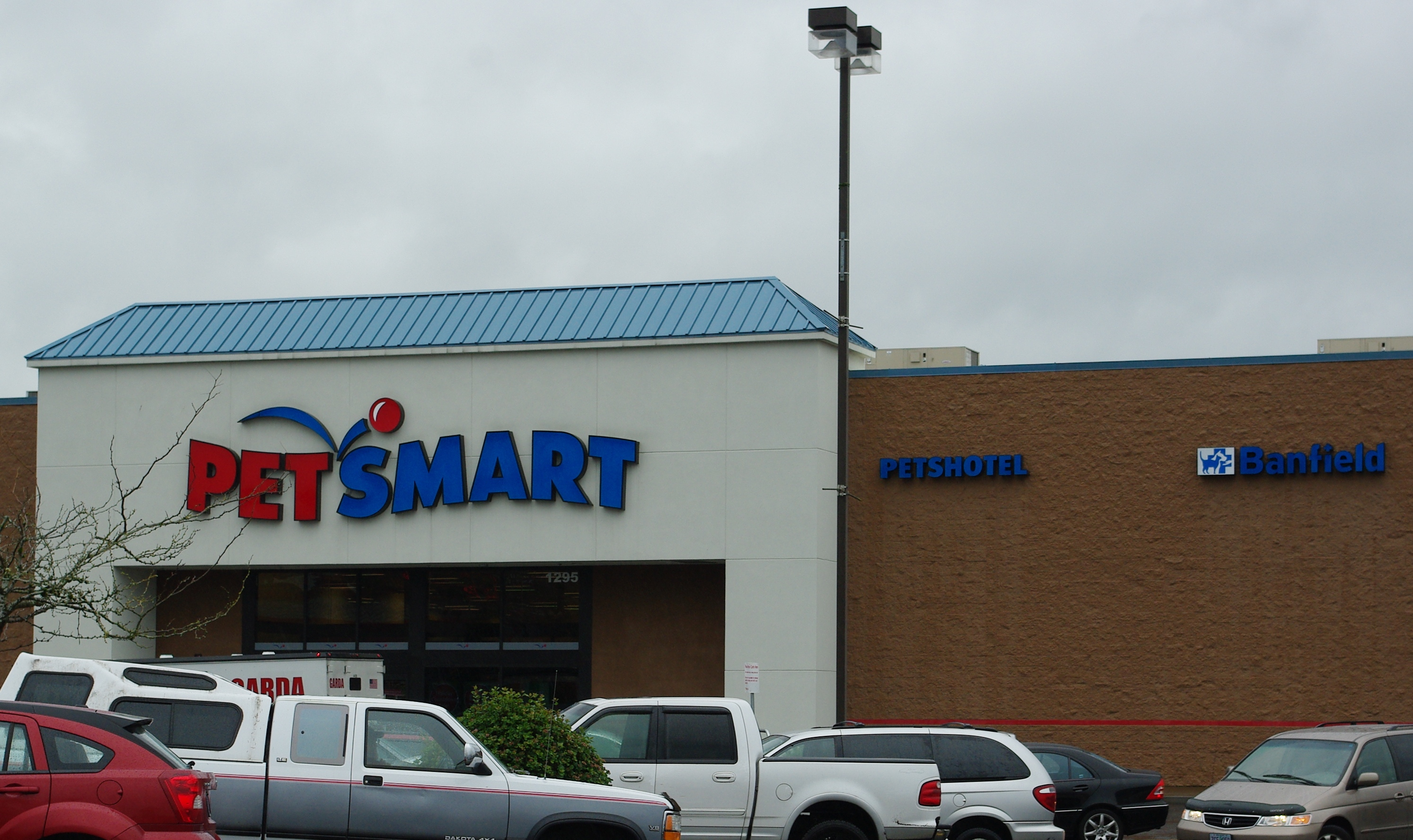 Petsmart store with co-located Banfield in Hillsboro, Oregon, on 185th Avenue.